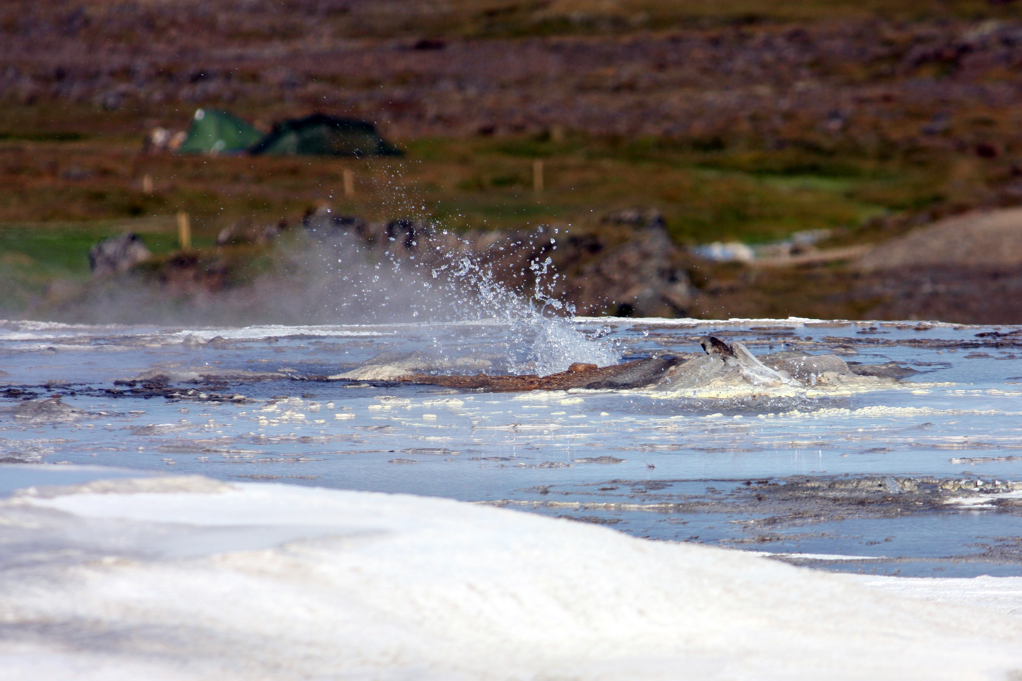 Fumarole in Hveravellir (Iceland)